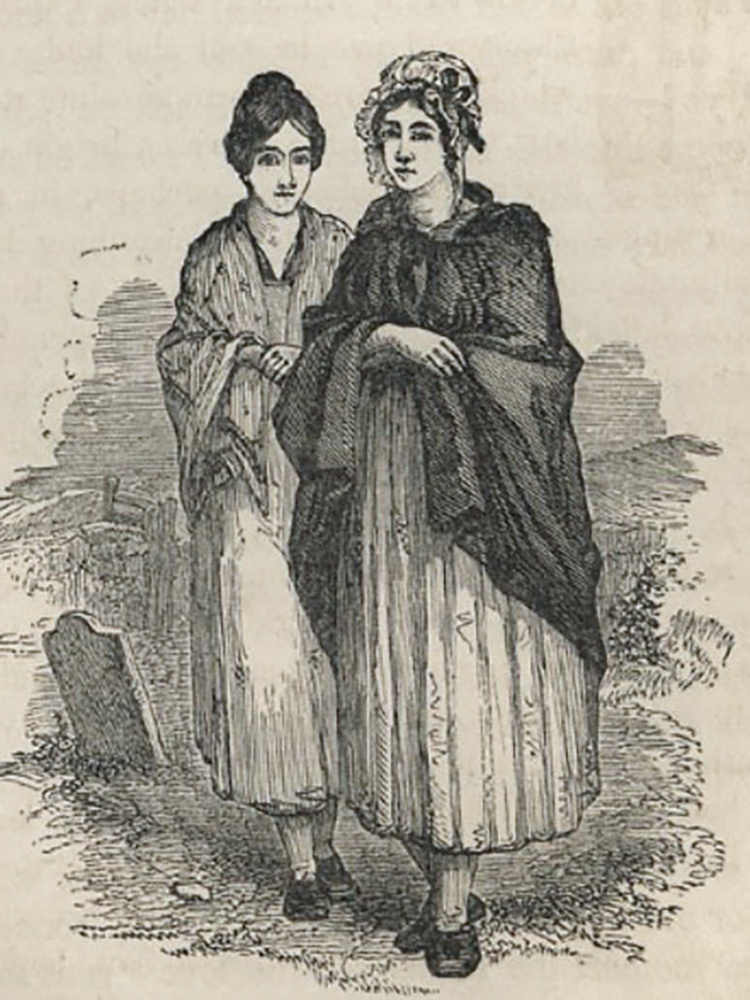 Image of the Wrens of Curragh taken from James greenwood's 1873 article, describing Irish female army prostitutes. Re-published